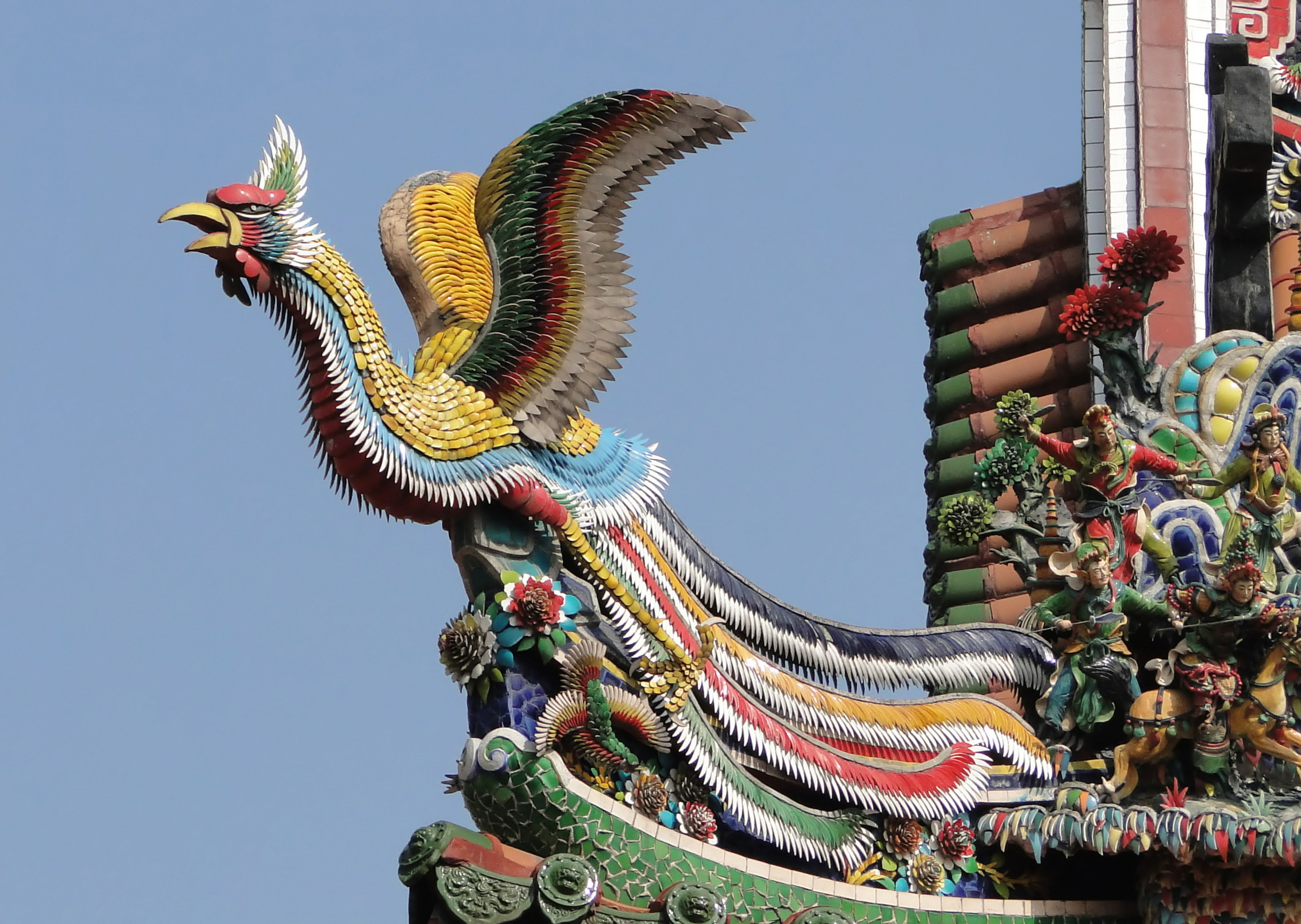 A Fenghuang or Chinese phoenix on the roof of the Main Hall of the Mengjia Longshan Temple in Taipei, Taiwan